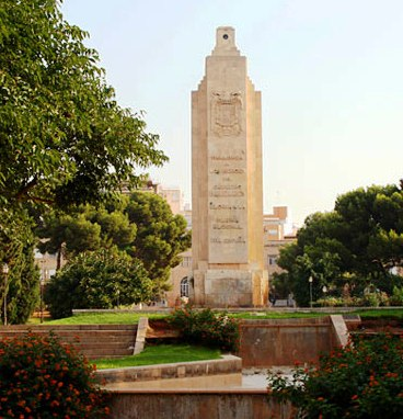 Monument for cruiser Baleares in Palma de Mallorca, bilt in 7 agost of 1939, inaugured in 1947